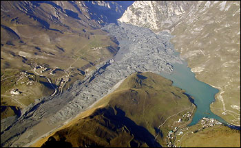 When the Kolka Glacier collapsed in September 2002, ice, mud, and rocks partially filled the Karmadon Depression, destroying much of the village of Karmadon. The debris swept in through the Genaldon River Valley (lower left) and backed up at the entrance to a narrow gorge (top center). The debris acted as a dam, creating lakes upstream. This aerial photograph (looking north) was taken only 16 days after the disaster.